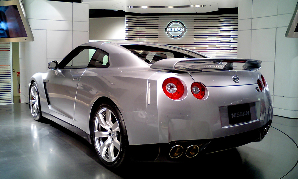 @ NISSAN Gallery Sapporo. 2007/10/28